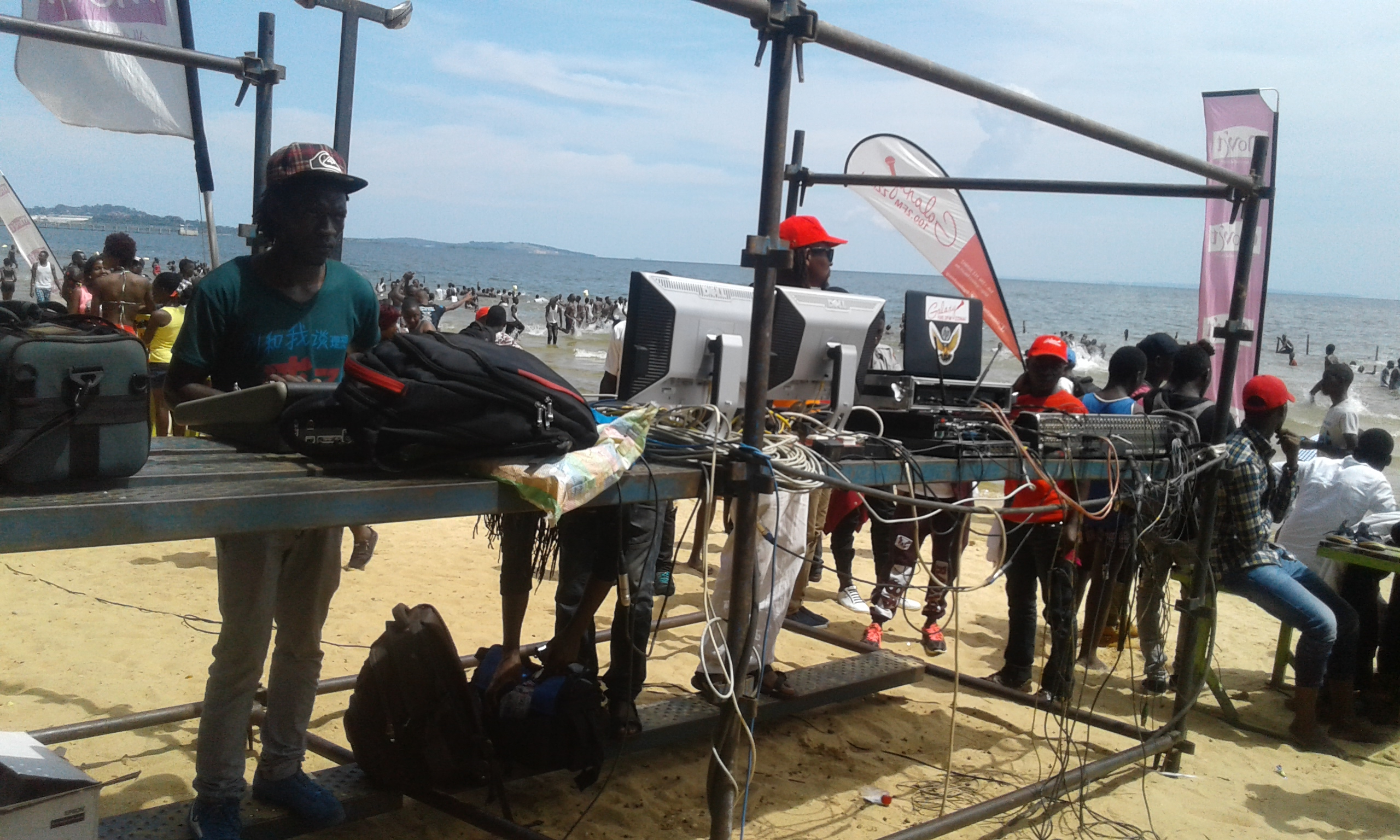 at the zzina music festival at imperial beach in entebbe This is an image from Uganda